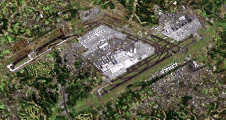 Narita International Airport, Landsat photo (2001). The runway completed in 2002 is visible in the upper half of the photo.